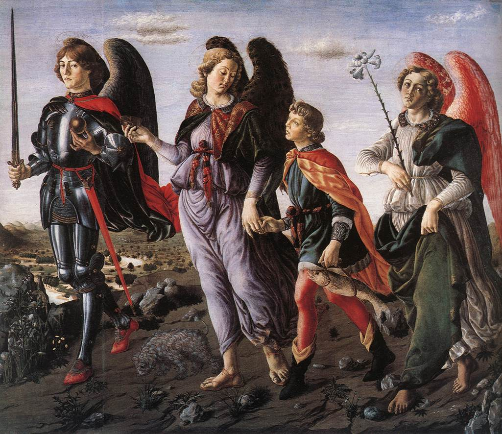 Tóbiás